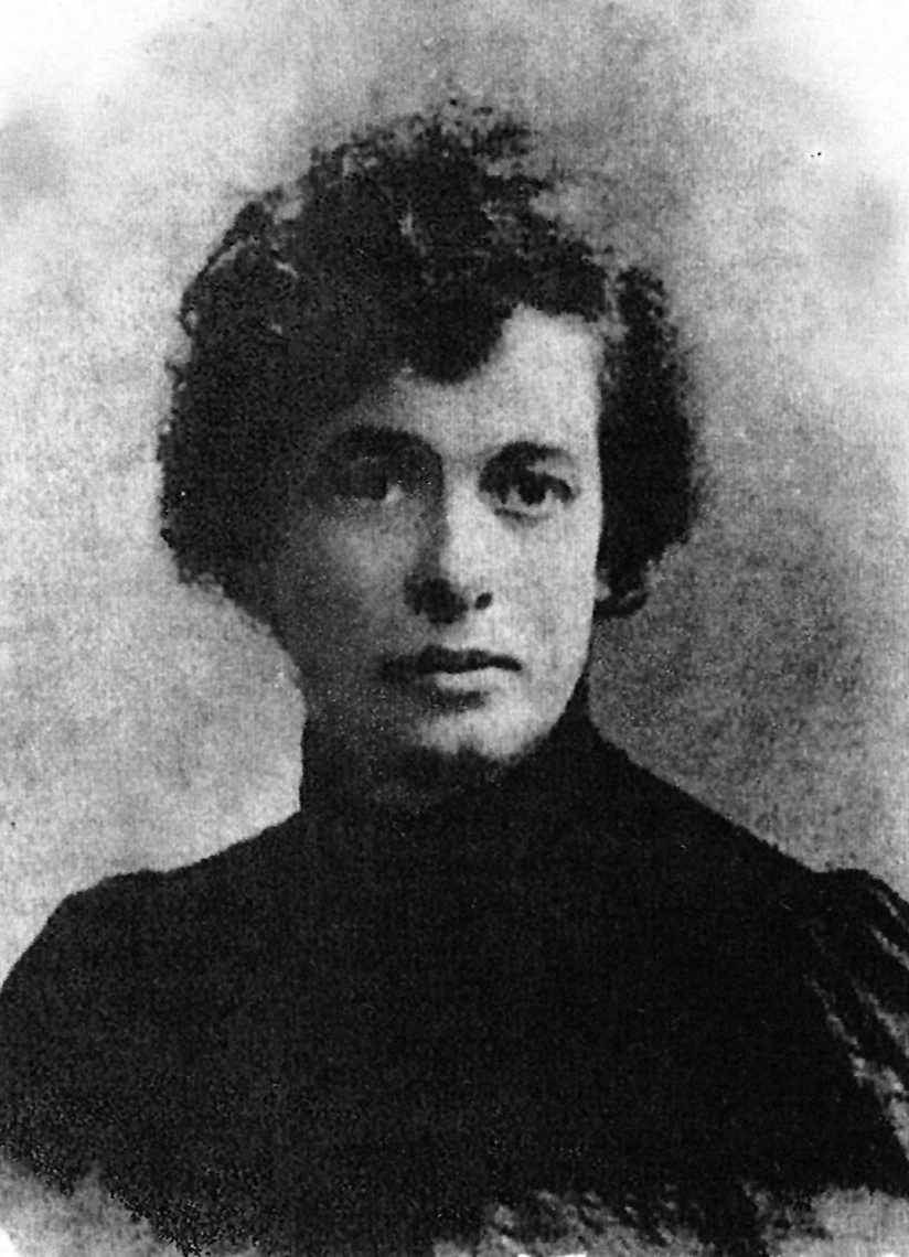 A portrait of a middle-aged Adela Zamudio.